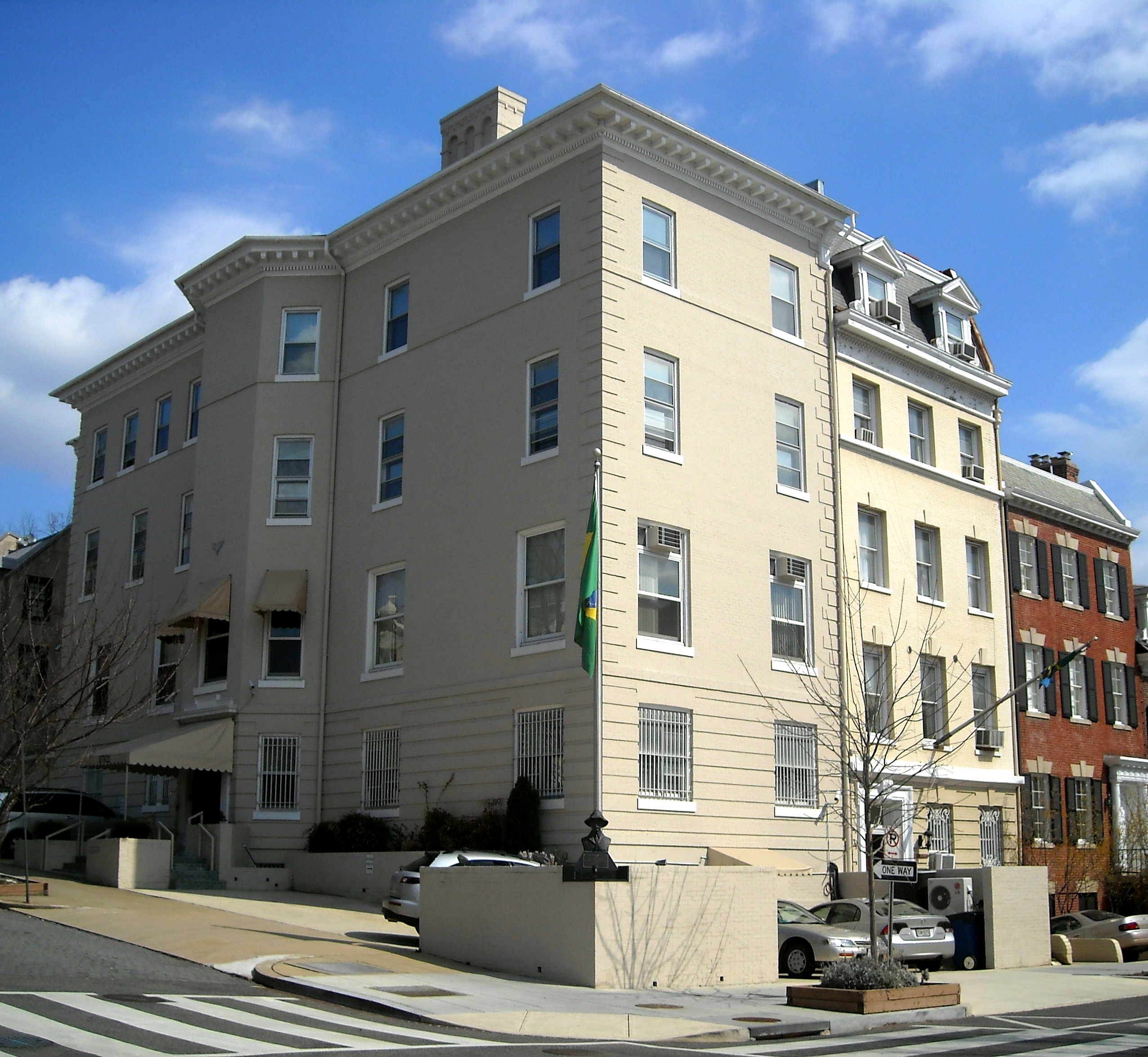 The Brazilian Aeronautical Commission office (since 1951), one of several buildings operated by the Embassy of Brazil, located at 1701 22nd Street, NW in the Sheridan-Kalorama neighborhood of Washington, D.C. The four-story building was designed by architect Lemuel L. Norris in 1901, and is a contributing property to the Sheridan-Kalorama Historic District. The 2009 property value of the BAC office is $3,736,990. Previous owners of the building include Henry Clarke Corbin, Morgan Bulkeley, Butler Ames, Benedict Crowell, and John W. Weeks. The building located next to the BAC office is the Embassy of Tanzania at 2139 R Street, NW. It was constructed in 1908, and is valued at $2,826,690. Previous owners of the building include William Gibbs McAdoo and his wife Eleanor Randolph Wilson McAdoo, Henry White, the Kingdom of Greece (legation), and the Government of Ghana (embassy). The building on the far right is 2137 R Street, NW. It was constructed in 1890, and is valued at $2,645,300. Previous owners include Alfred Wilkinson Johnson and the Government of Norway (embassy).